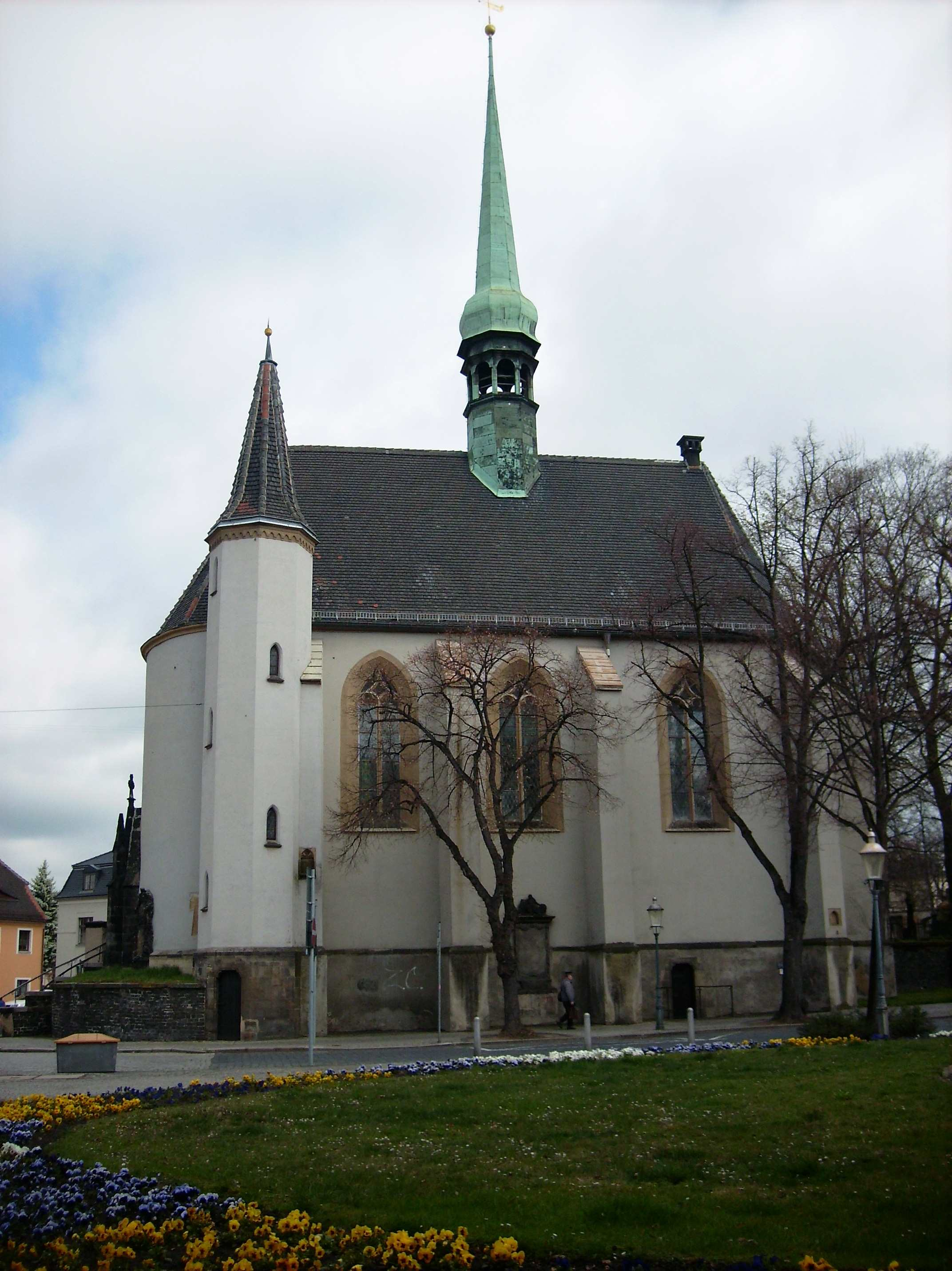 Trinity Church (or Weavers' Church) at Zittau (Görlitz district, Saxony), south façade